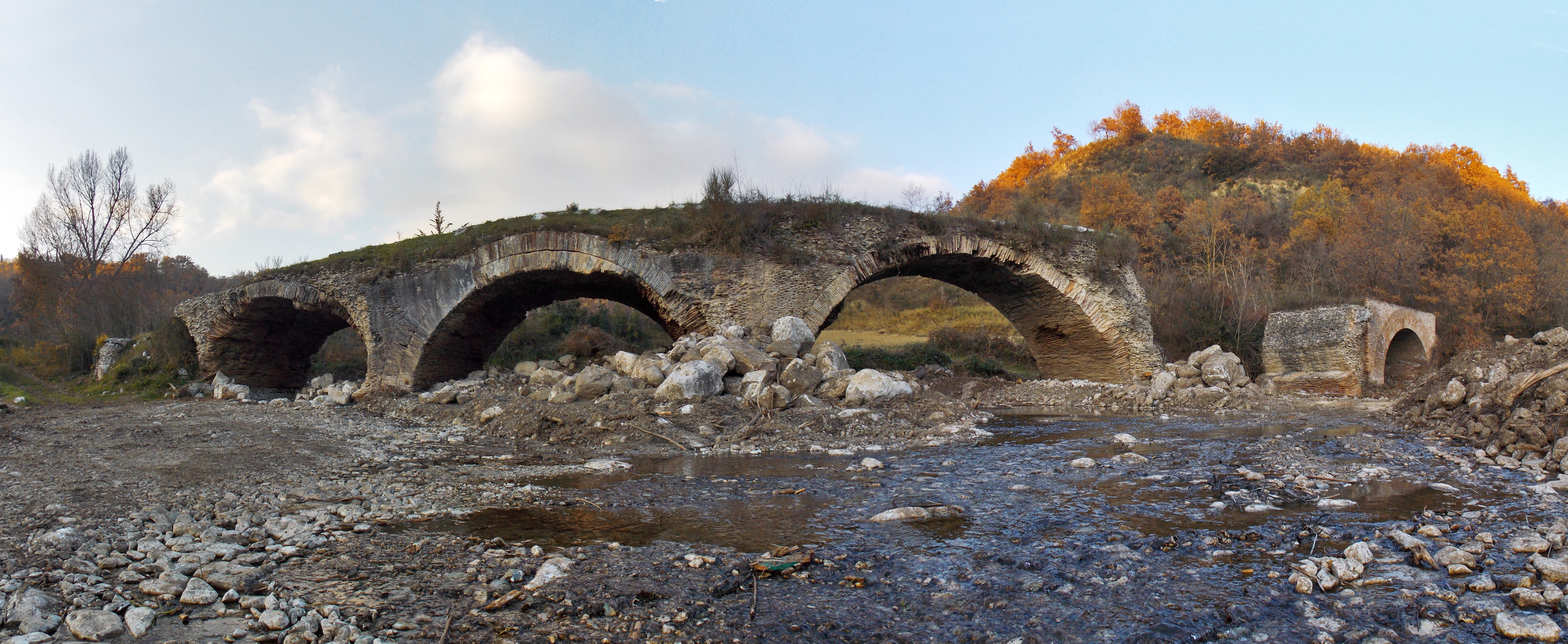 Ponte delle Chianche, Buonalbergo, Southern Italy, along the via Traiana (2nd century AD). View from south.